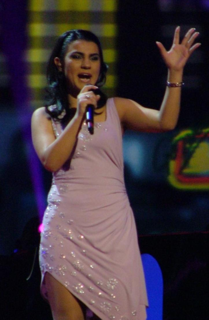 Anjeza Shahini during a rehearsal at the Eurovision Song Contest 2004 in Istanbul